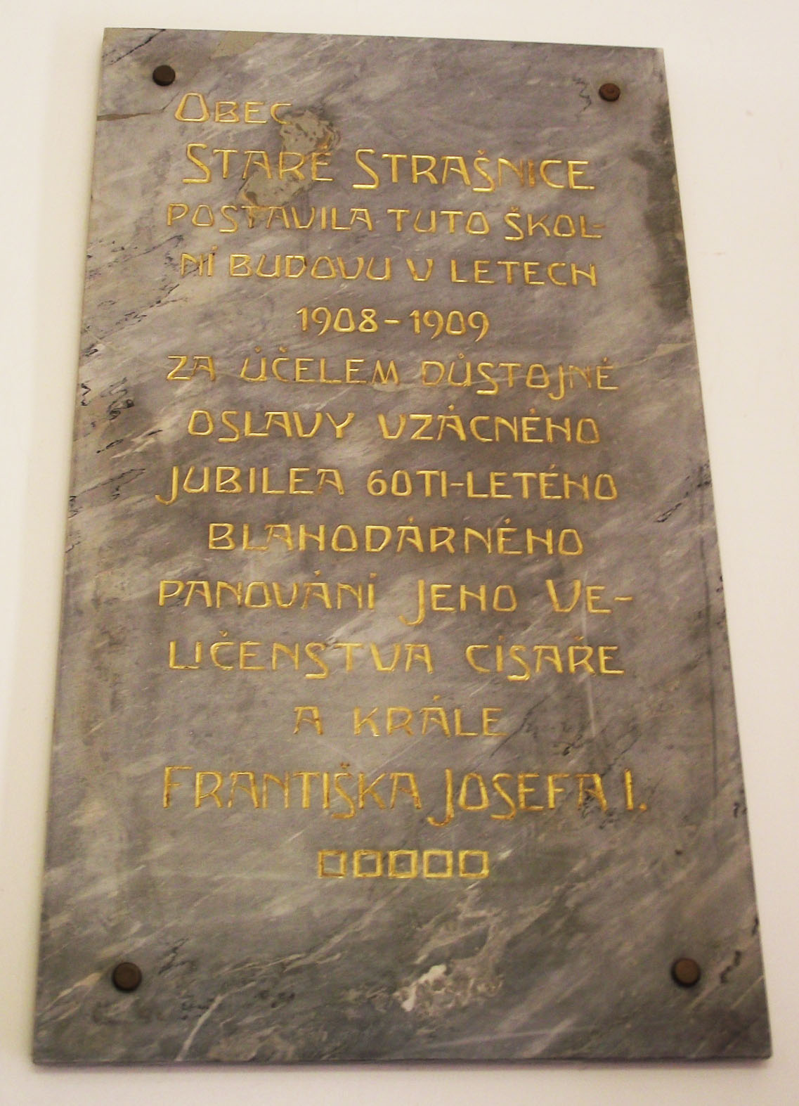 Josef Škvorecký Literary Academy in Prague - plaque inside